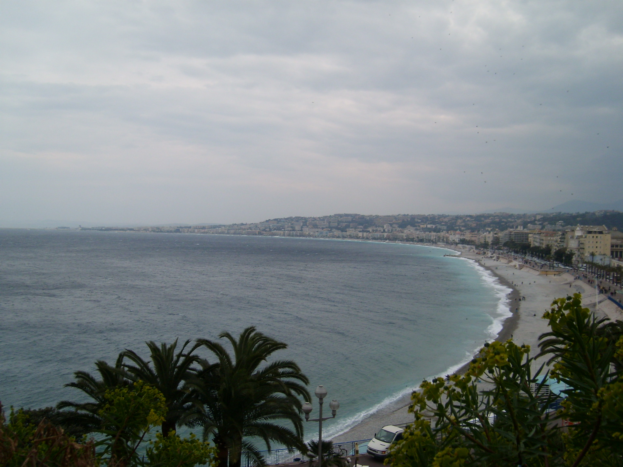 View over Nice and the mediterranean sea. The "Promenade des Anglais" on the righthandside.